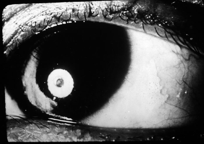 Malnutrition-Bitot's Spots/ Bitot's Spots caused by vitamin A deficiency